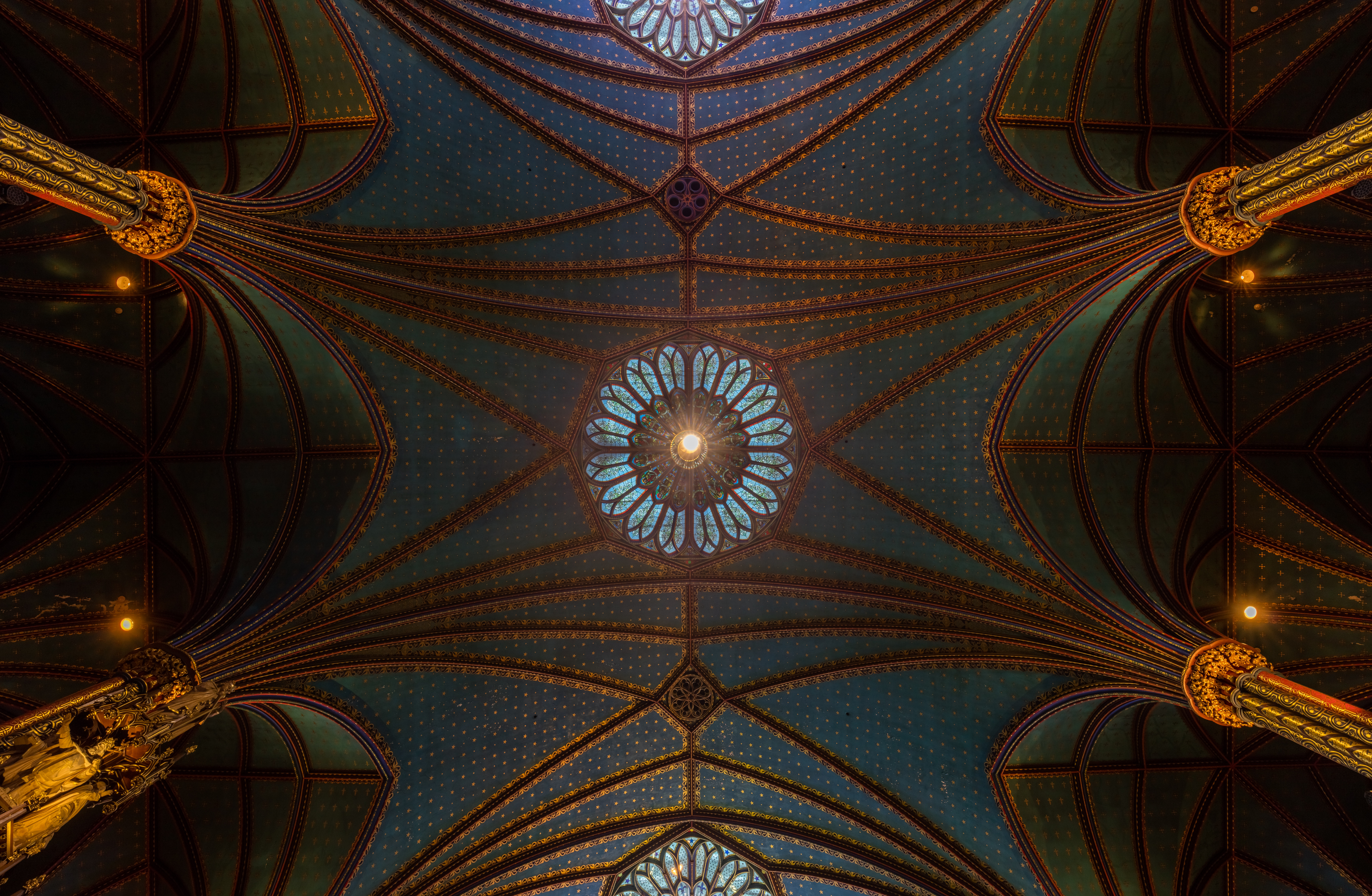 Notre-Dame de Montréal Basilica